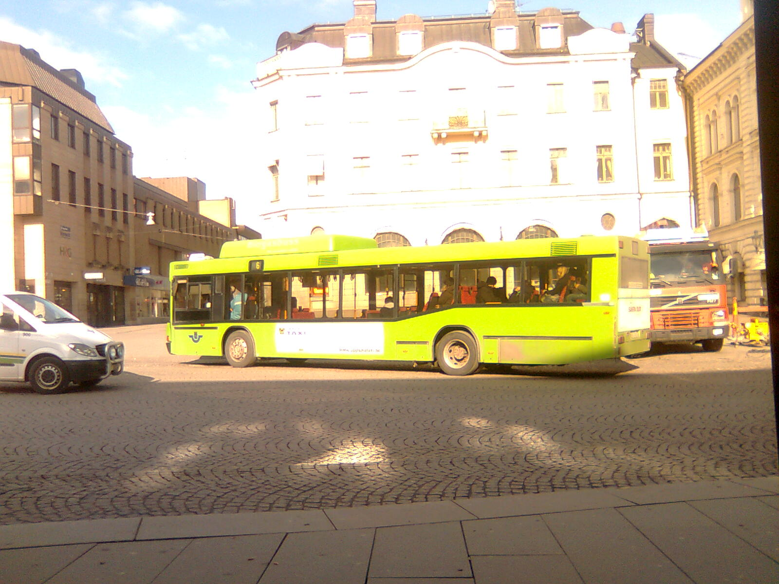 A Neoplan N4016 city coach in Uppsala, Sweden.